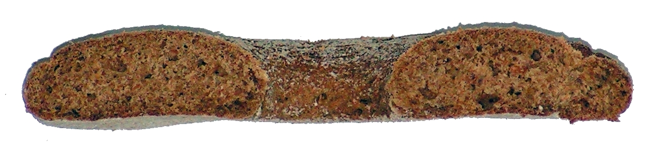 Reikäleipä (finnish traditional bread with the hole in center): view in section